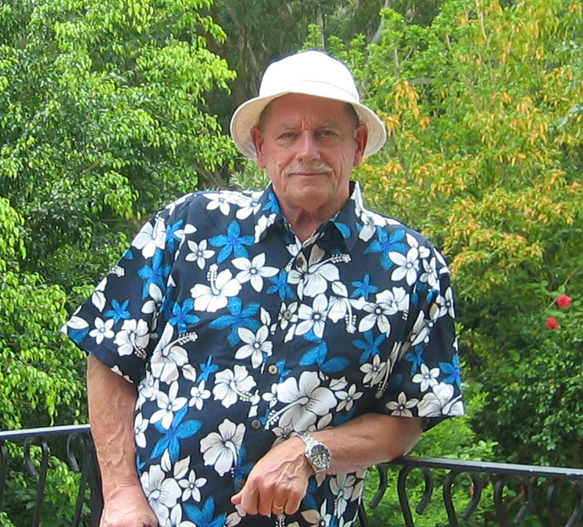 Foss Leach, Xmas day 2011